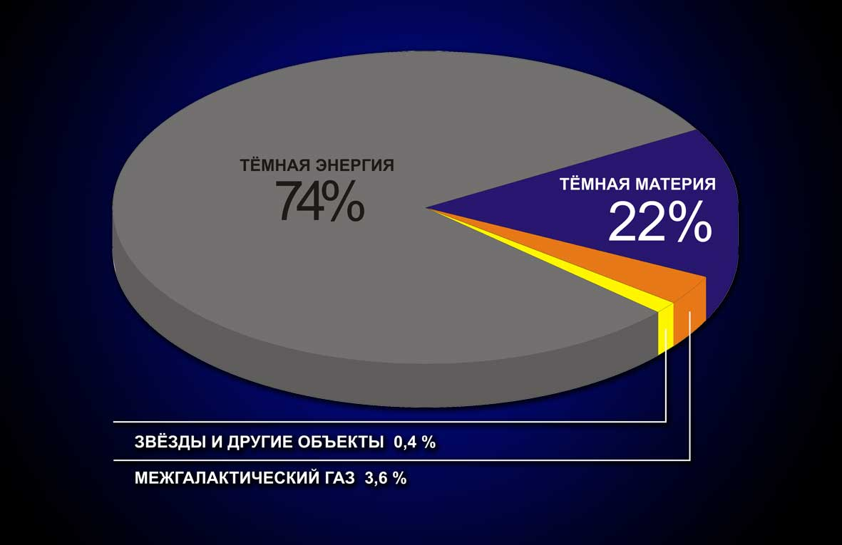 The composition of the Universe